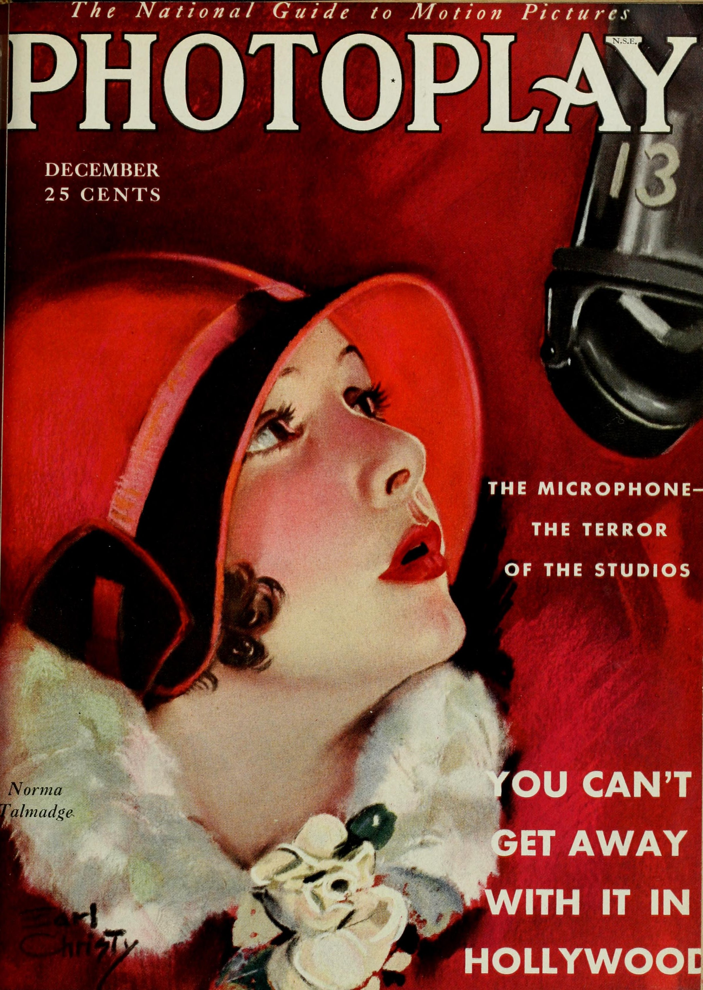 Description: Low-resolution reproduction of cover of magazine Photoplay, December 1929, featuring actress Norma Talmadge